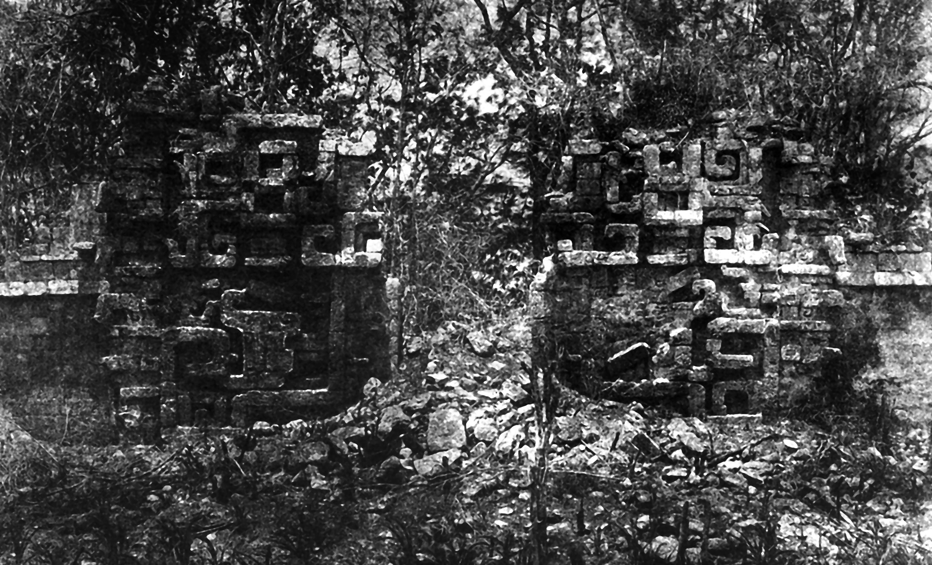 Hochob, Campeche, Mexico: structure III, Maler phototograph